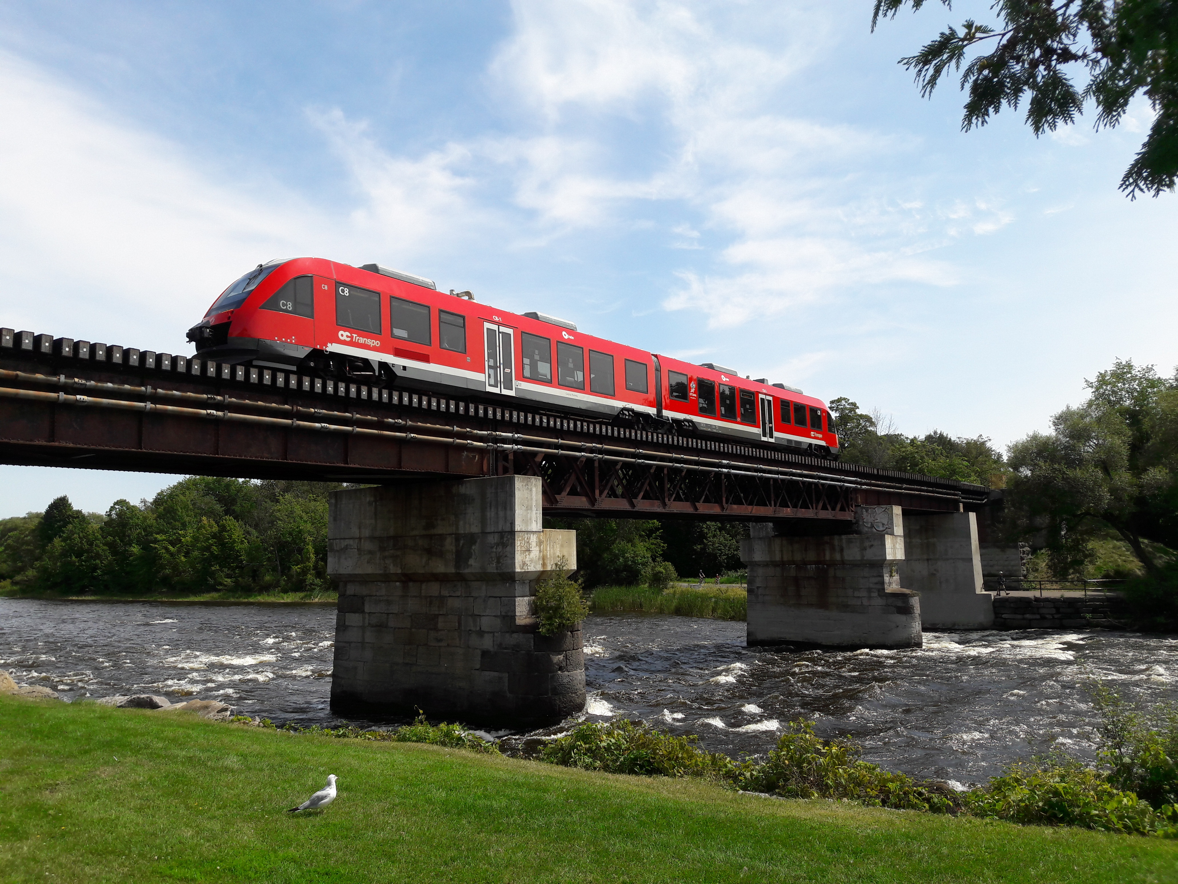 Alstom Coradia Lint 41 on Rideau River Bridge as seen from Carleton University